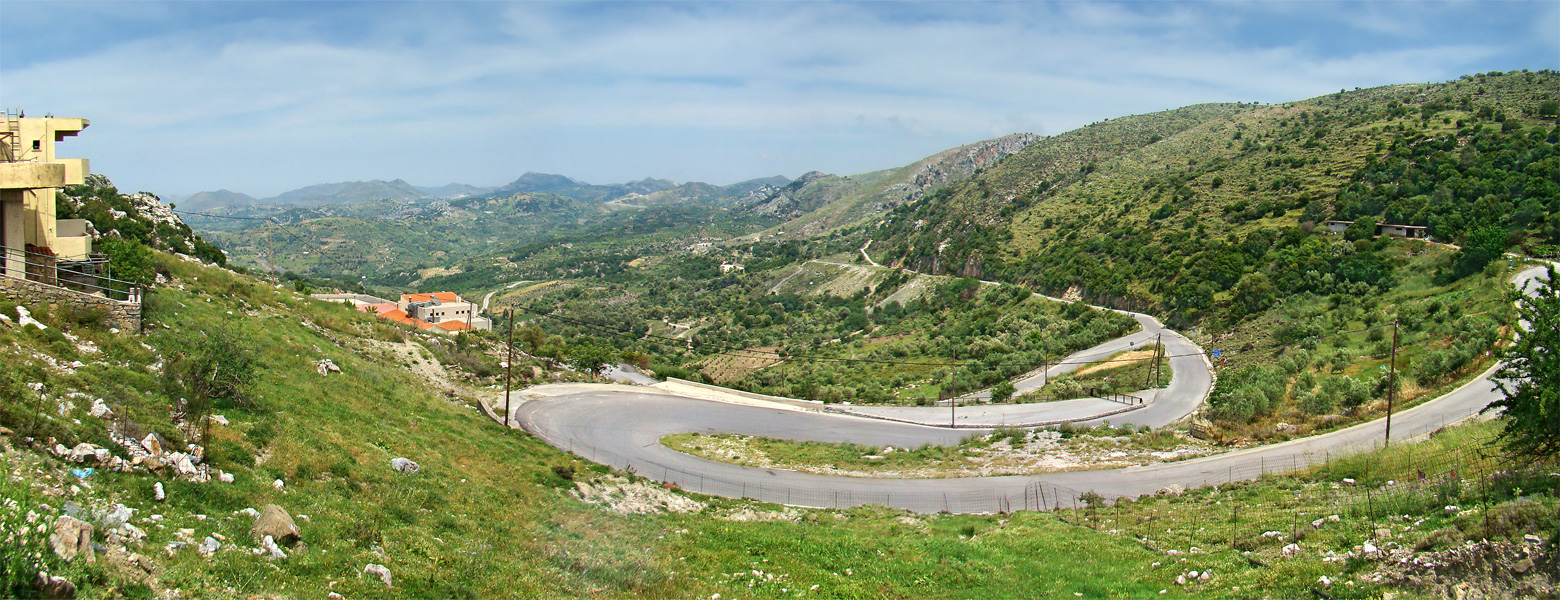 Around Sfendoni Cave, Crete, Greece.